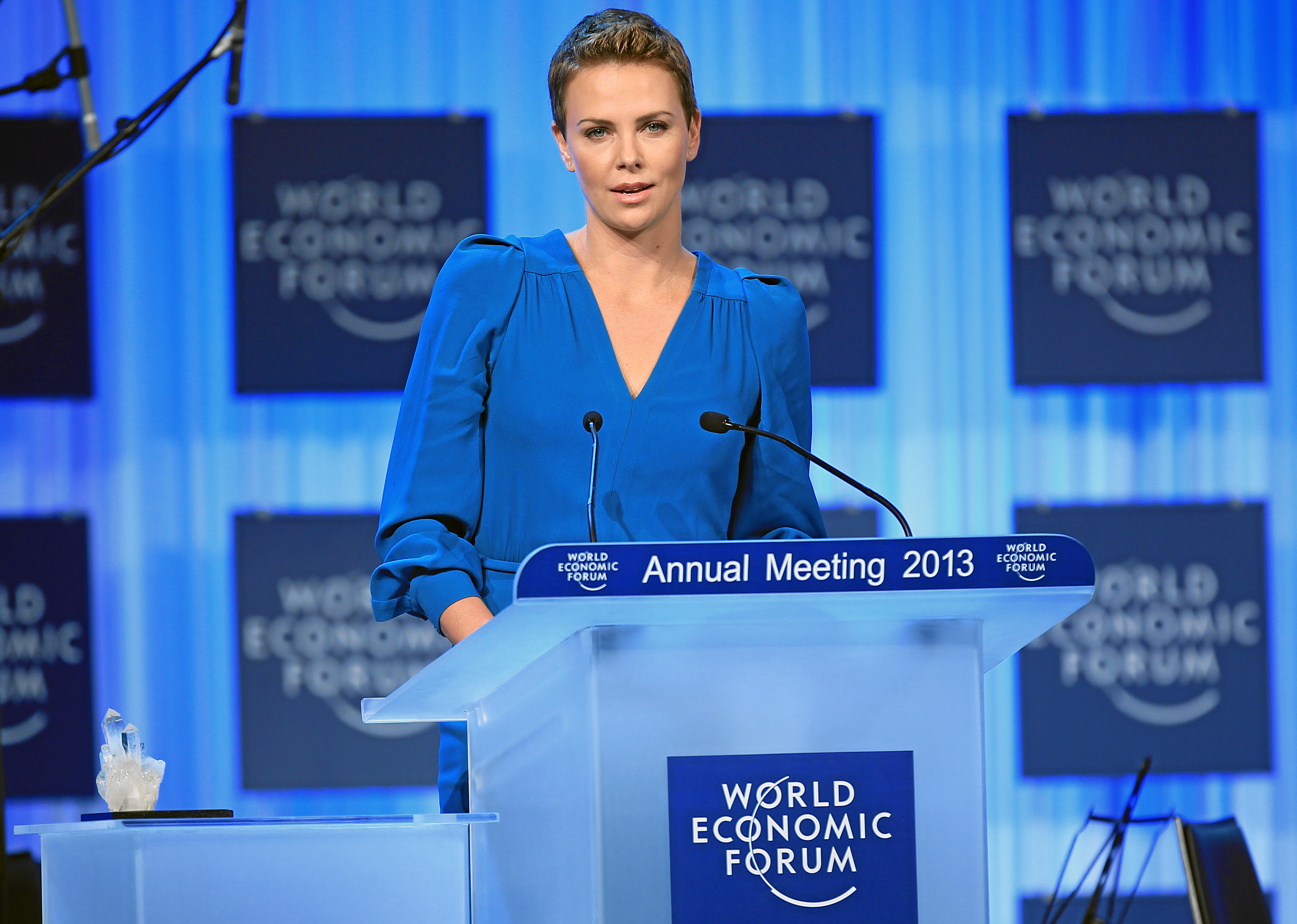 DAVOS/SWITZERLAND, 22JAN13 - Charlize Theron, Actress and Founder, Charlize Theron Africa Outreach Project, USA talks during the Crystal Award Ceremony Exploring Arts in Society' at the Annual Meeting 2013 of the World Economic Forum in Davos, Switzerland, January 22, 2013.. . Copyright by World Economic Forum. . Sebastian Derungs